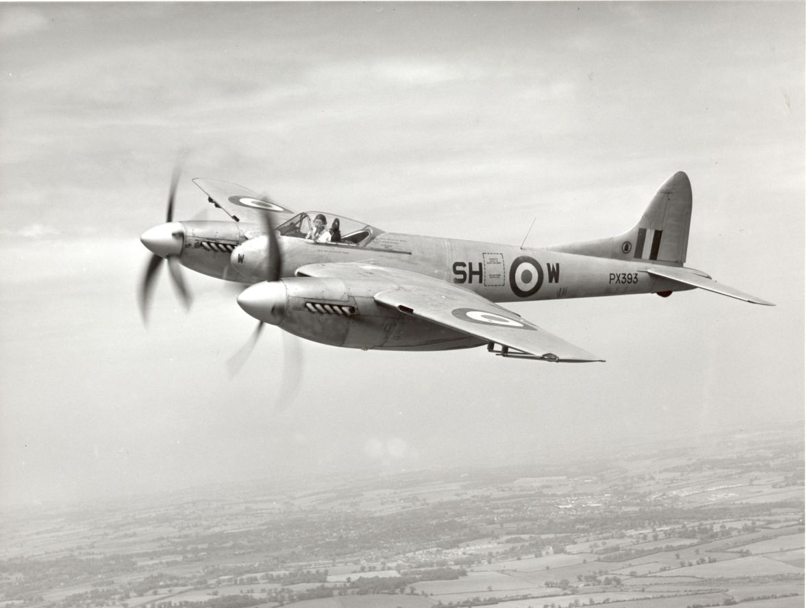 De Havilland Hornet F3